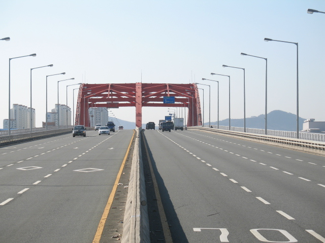 SinHo Bridge in Busan West Nakdong river upper view